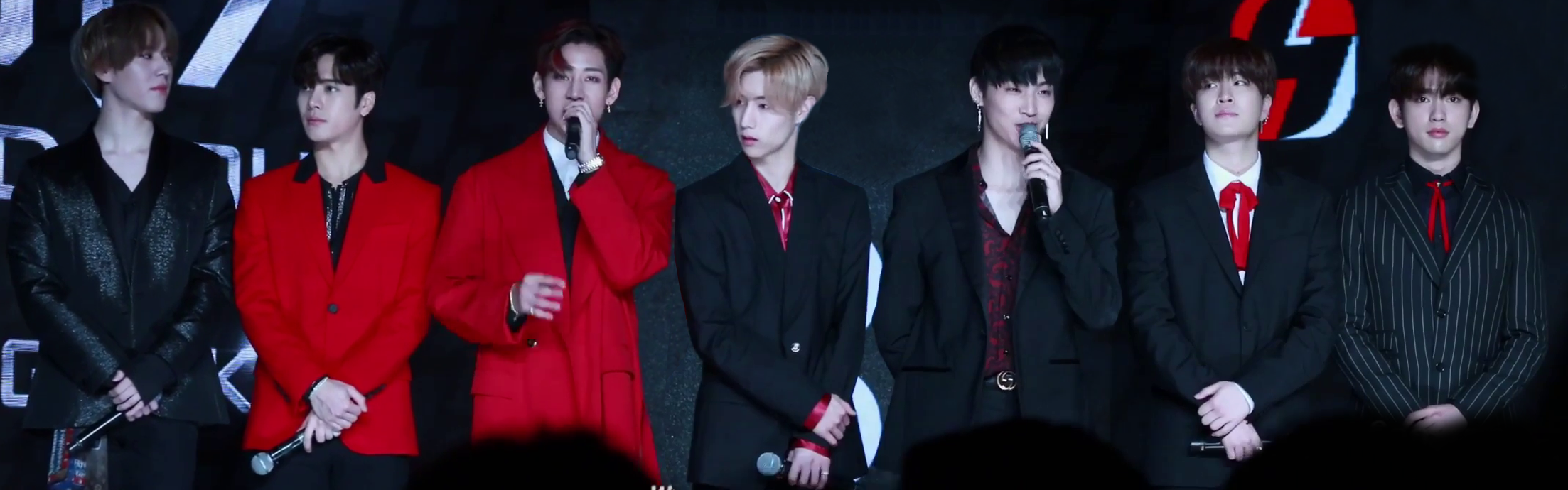 4NOLOGUE presents 2018 GOT7 World Tour in Bangkok, 24 February 2018 - 10m 13s + 10m 32s